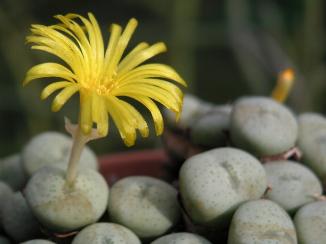 Personnal collection